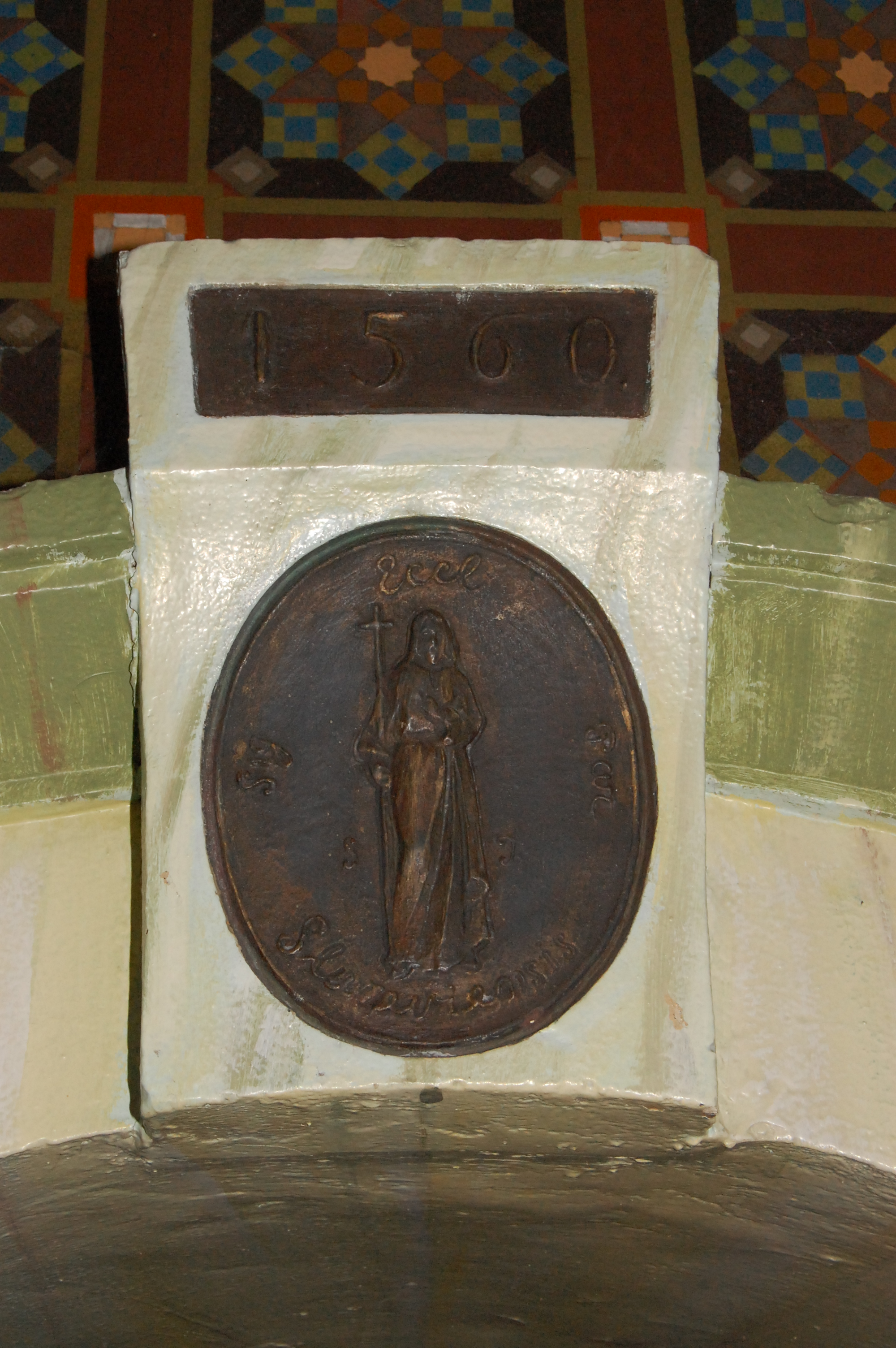 The sign over tha door to the vestry in catholic church in Sluzewo in kujavian cauntry in central poland